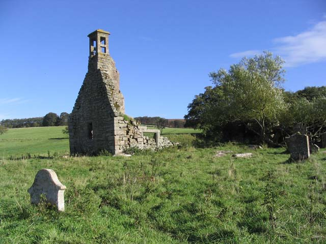 The remains of Abbotrule Church